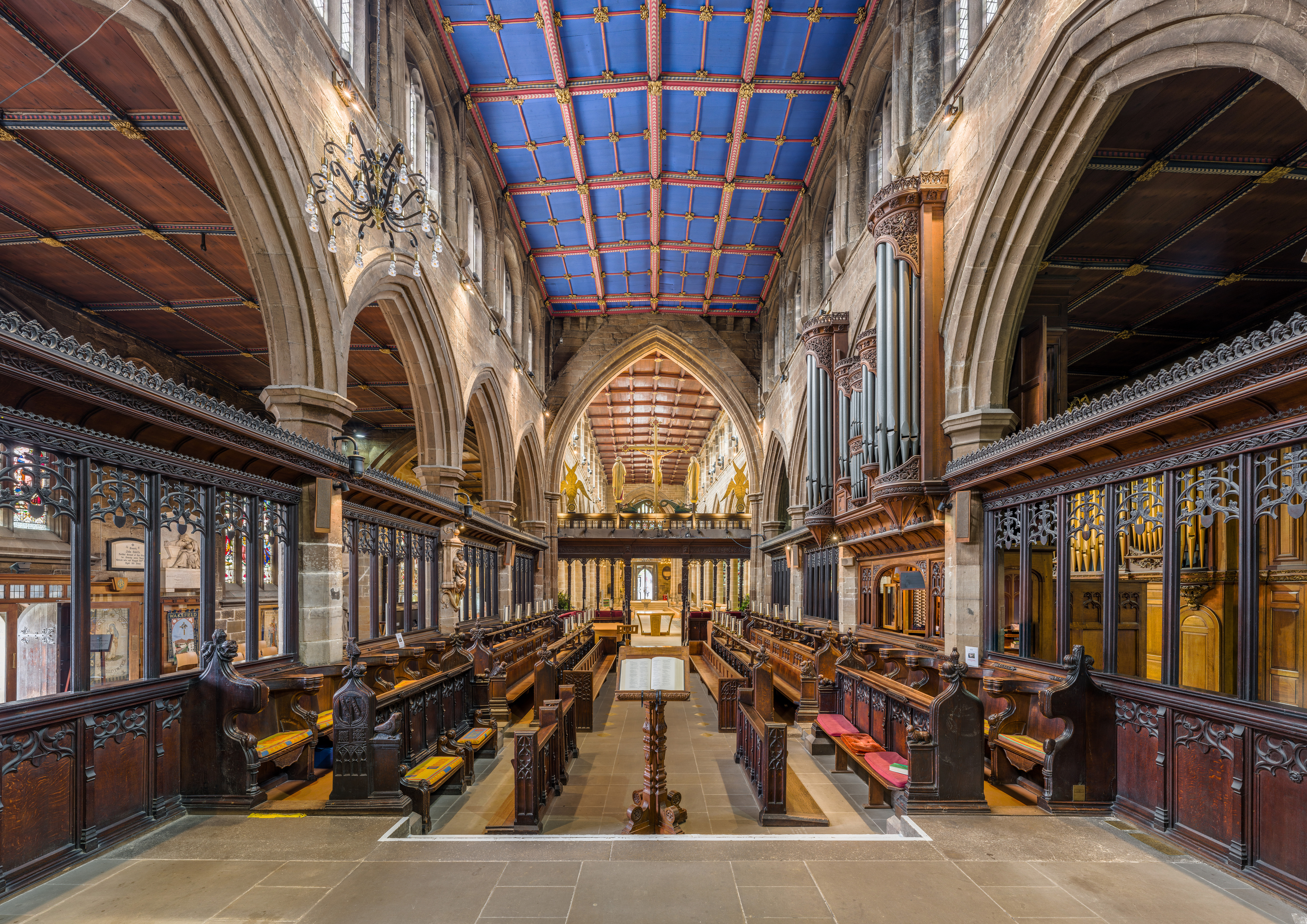 The choir of Wakefield Cathedral in West Yorkshire, England.